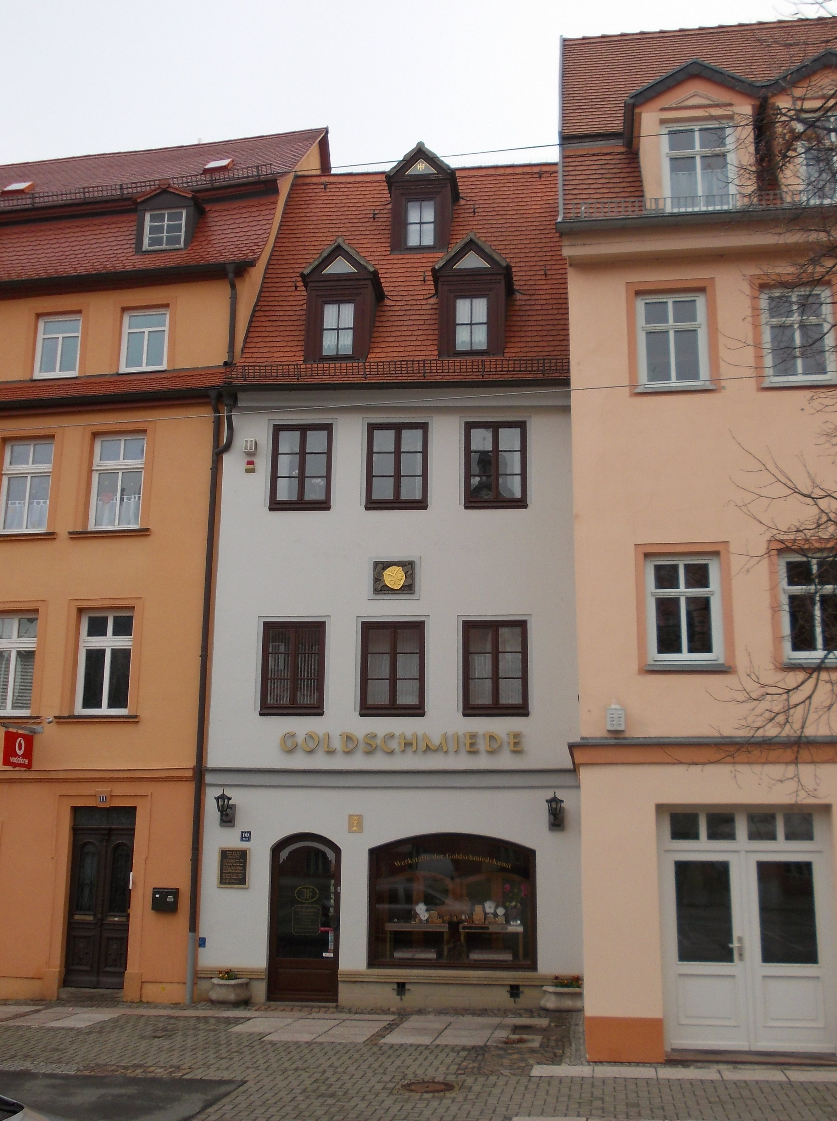 House No. 10 at the market square in Weissenfels (district of Burgenlandkreis, Saxony-Anhalt)